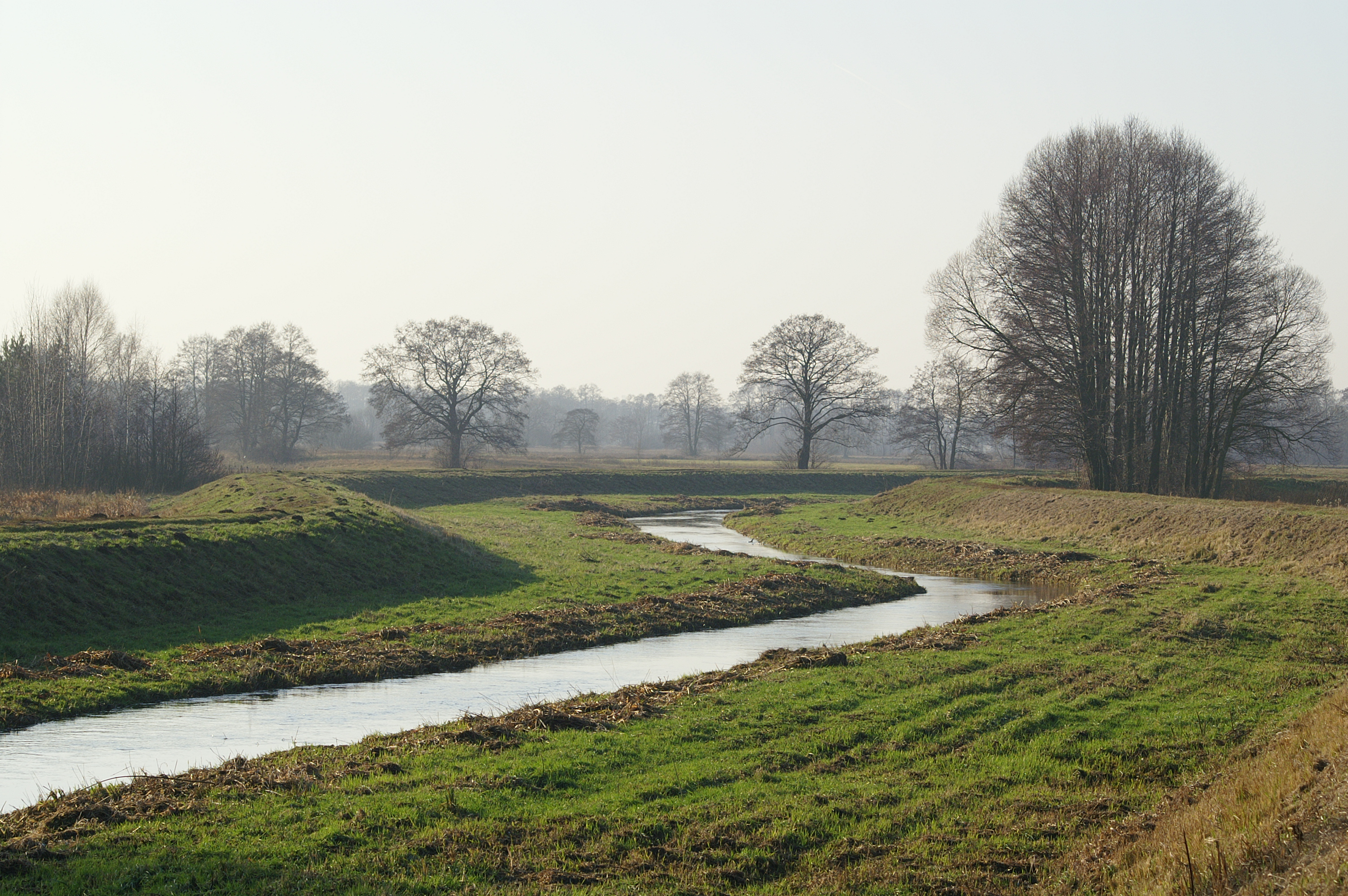 River Czarna in Stanislawow I